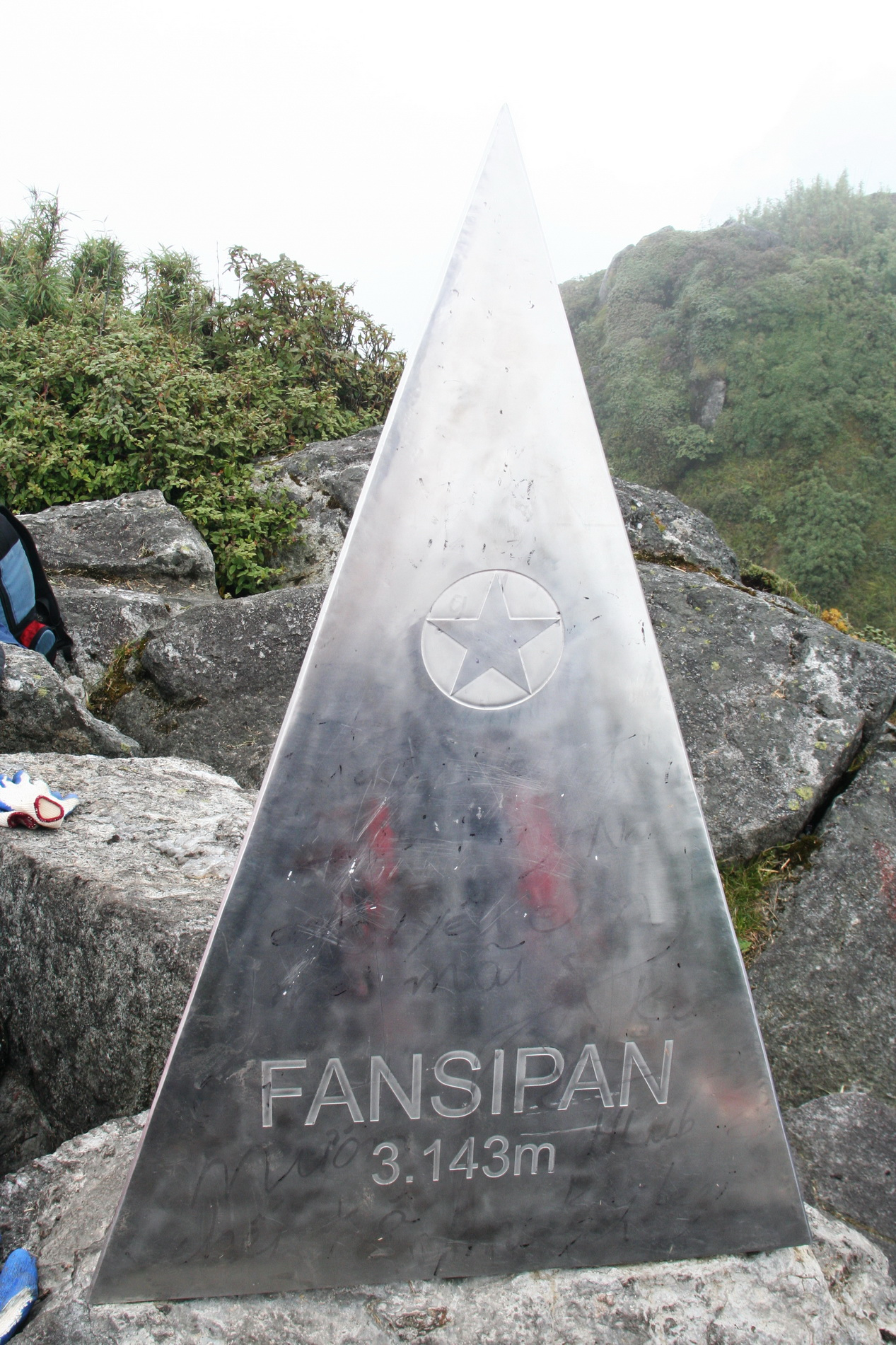 Summit mark on Fansipan